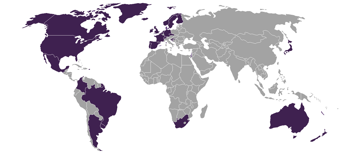 Immigration equality laws in the world. Key Recognition of Same-sex couples to immigration Unknown/Ambiguous